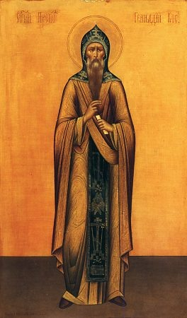 Gennady Lyubimogradsky (Gur'yanov, 1900)